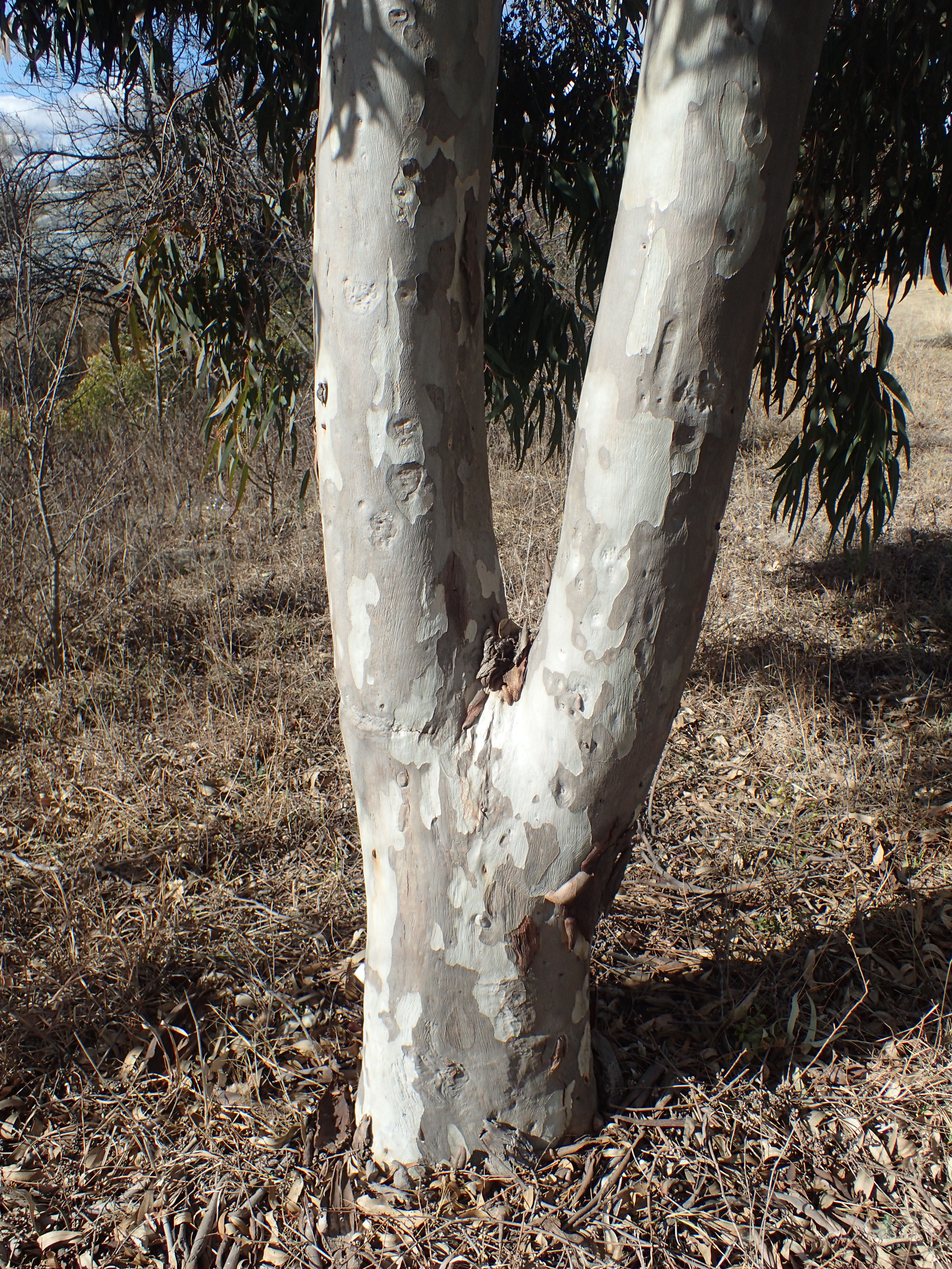 Eucalyptus michaeliana growing as a street tree along the Bundarra Road in Armidale